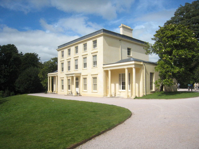 Greenway - the holiday home of Agatha Christie